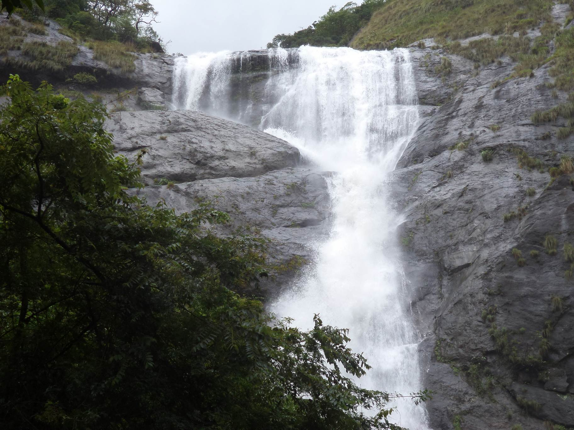 Palaruvi waterfalls, kerala, india